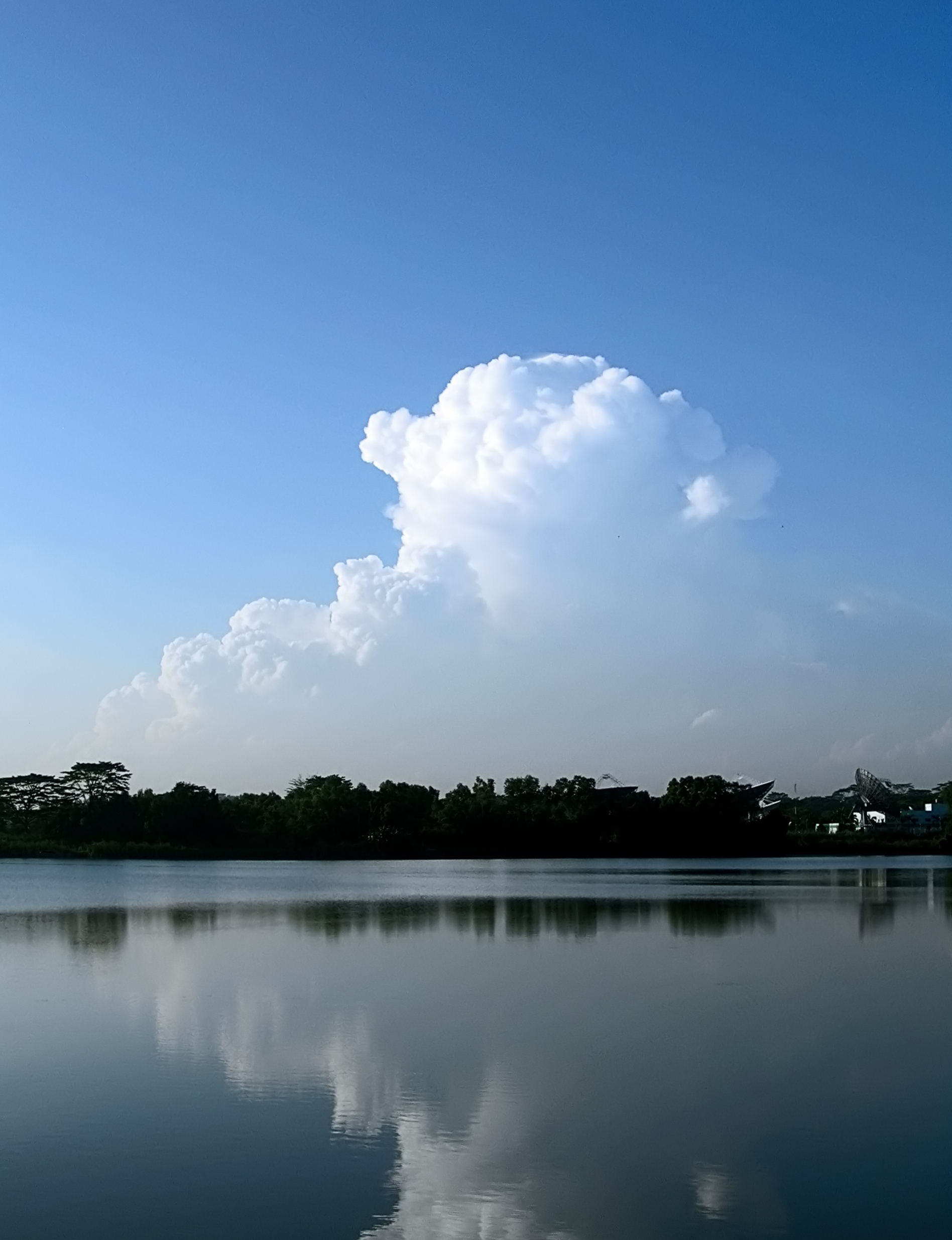 Cirrus clouds over the Lower Seletar Reservoir - I used a blue filter in Photoshop to accentuate the blue tones here.